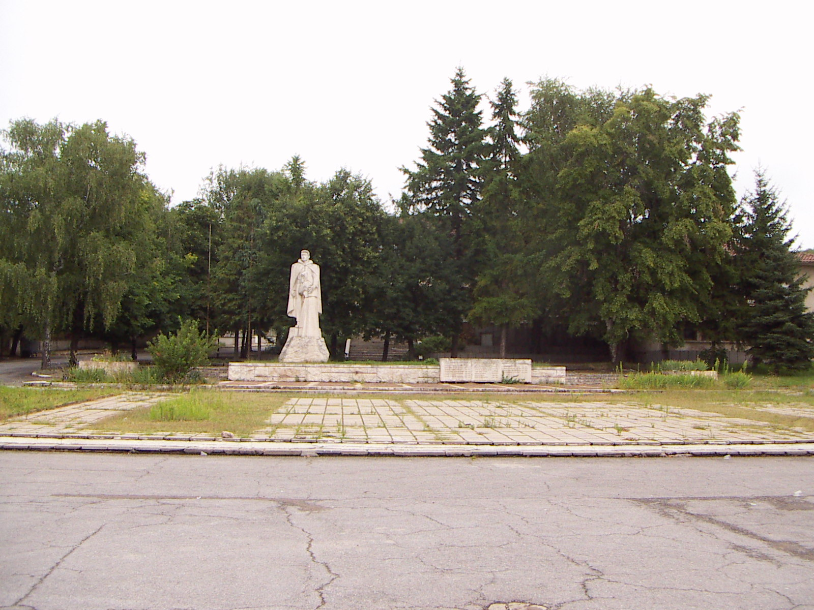 The centre of village Lokorsko, Bulgaria